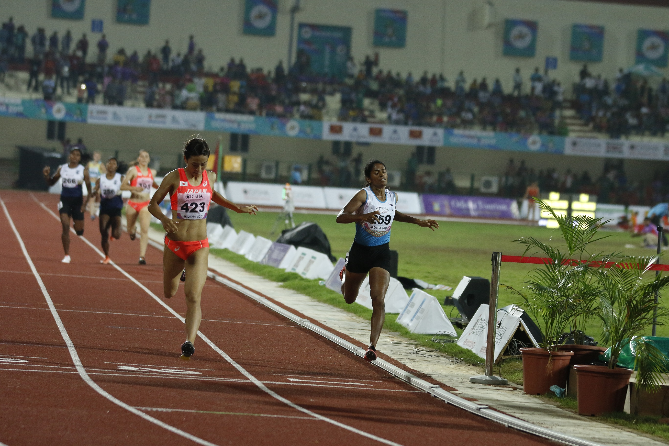 2017 Asian Athletics Championships at the Kalinga Stadium in Bhubaneswar, India